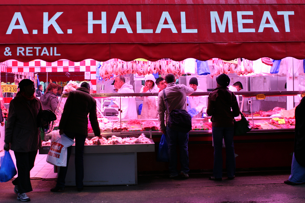 Halal Meat Brixton Market